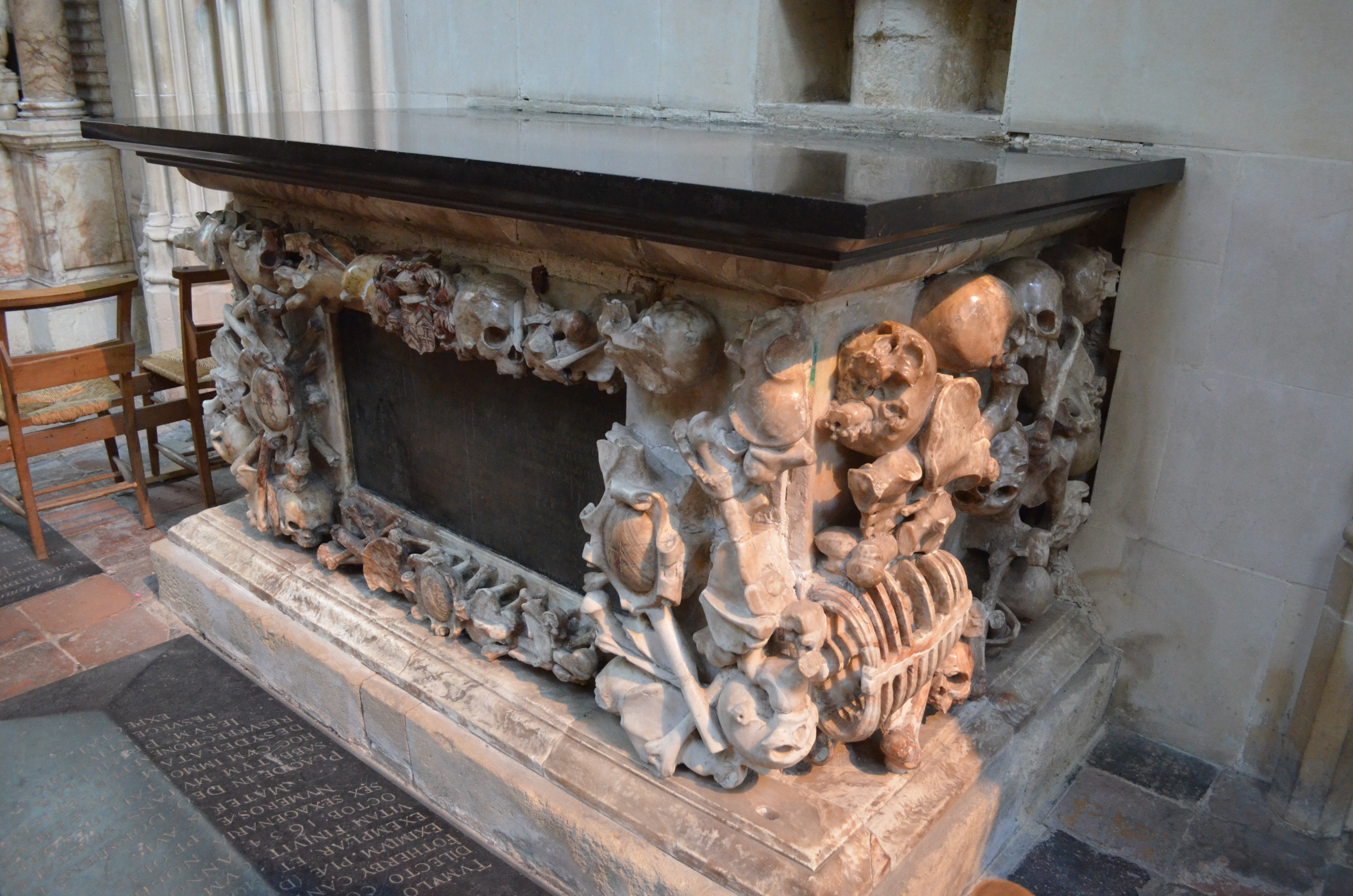 Tomb of Dean Charles Fotherby (1549-1619), which is adorned with skulls, bones and other memento mori. He originated from Grimsby, Lincolnshire and was educated at Trinity college Cambridge. He became Dean of Canterbury Cathedral in 1615. He married Cecilia Walker of Cambridge, by whom he had ten children, but only 5 survived him. His wife survived him until 1634, aged 60.